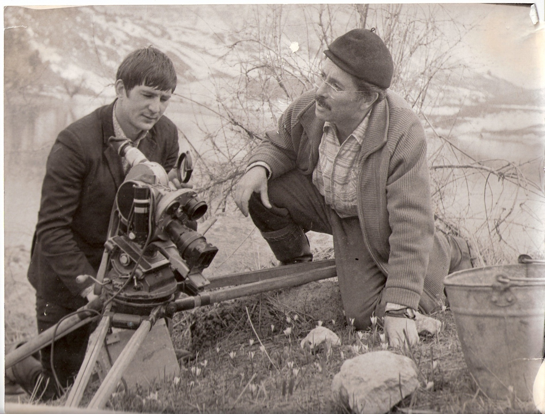 I. Gershtein, from the Gershtein family archive.